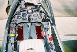 Yak Front Cockpit (my photo)